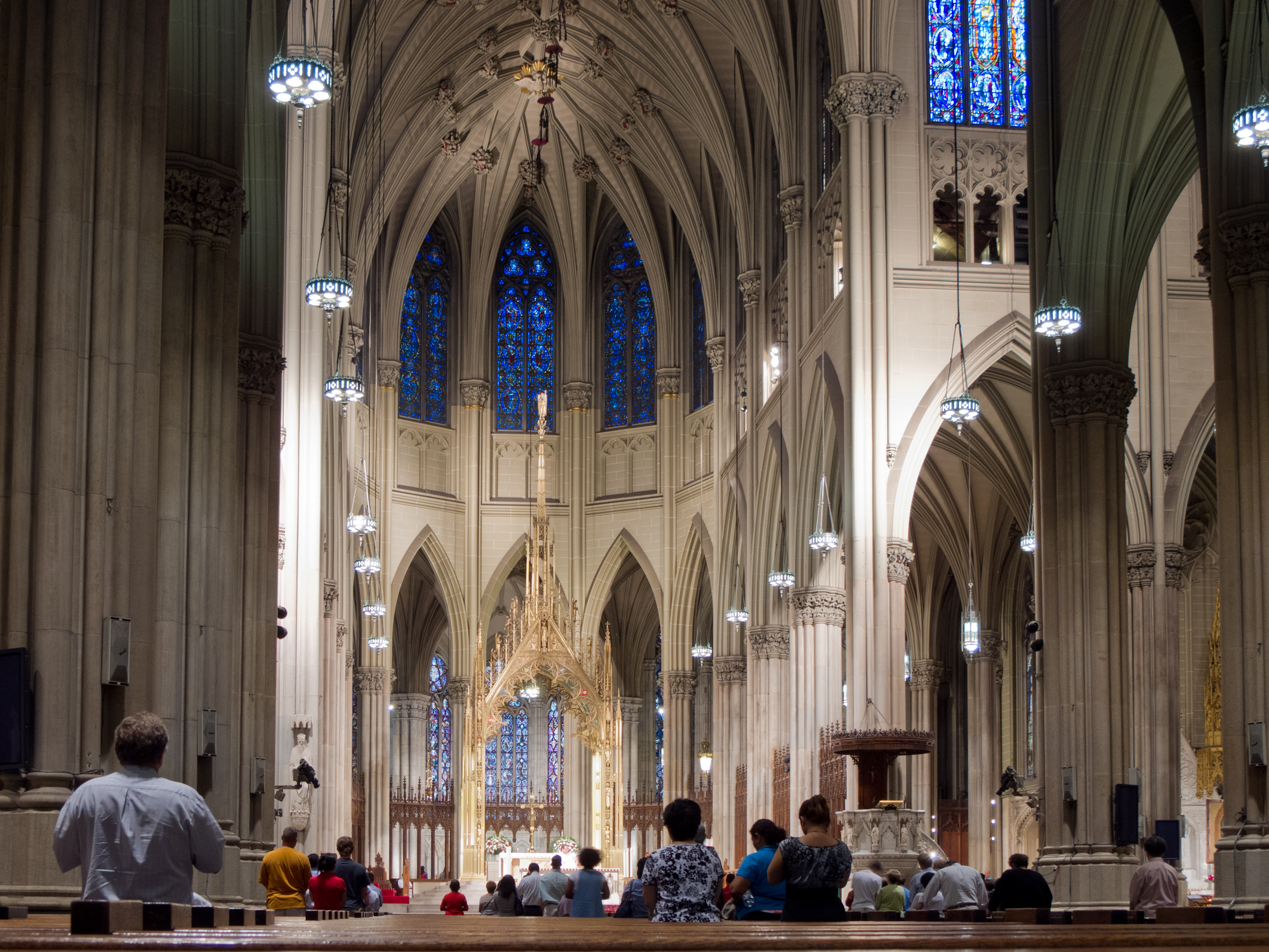 Interior of St. Patrick's Cathedral, New York, United States.